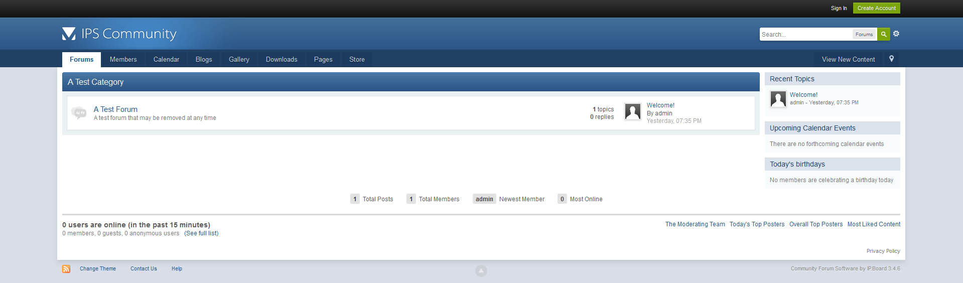 A screenshot of a newly installed version of IPB 3.4.6